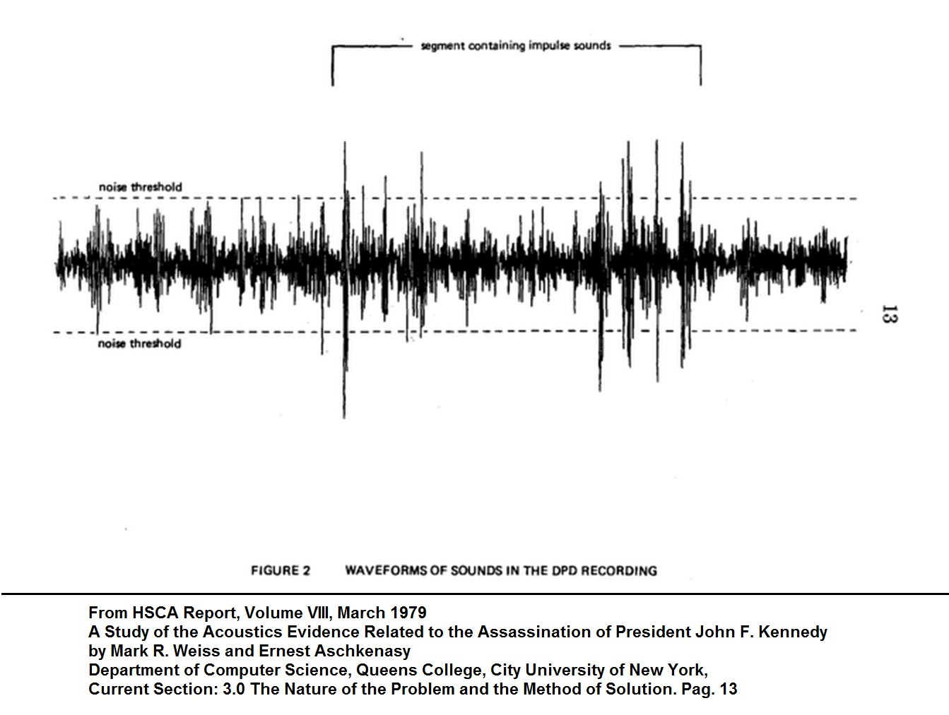 The waveforms in the bracketed region include the group of impulse-sounds analysis of recorded Dictabelt sounds relating to the assassination of President John F. Kennedy. Digital computerized oscillogram waveform of sounds in the DPD recording.